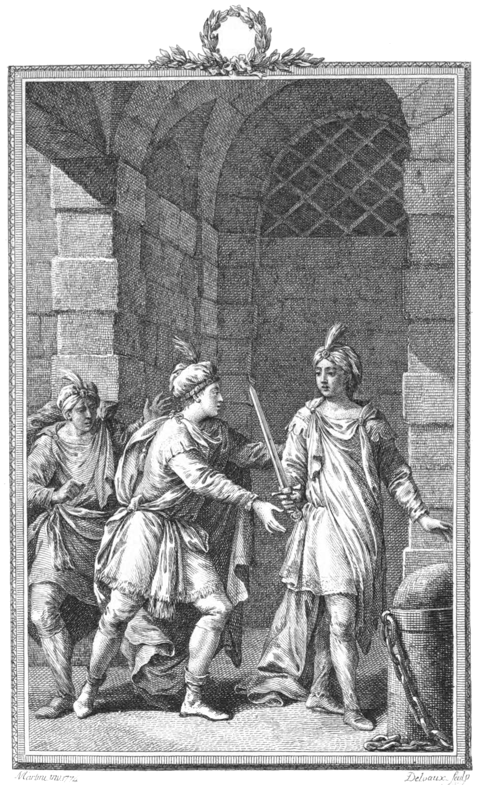 Metastasio - Siroe re di Persia, Atto III, Scena X. „Difenditi, mia vita, ecco l’acciaro“